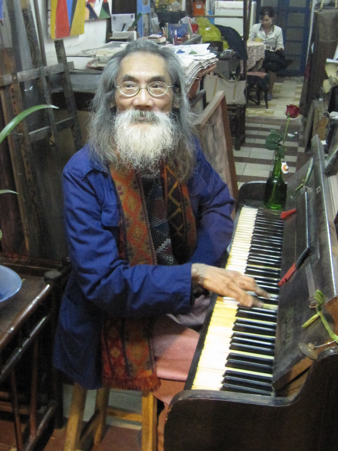 The Vietnamese modern painter Vũ Dân Tân playing piano in his gallery in central Hanoi.